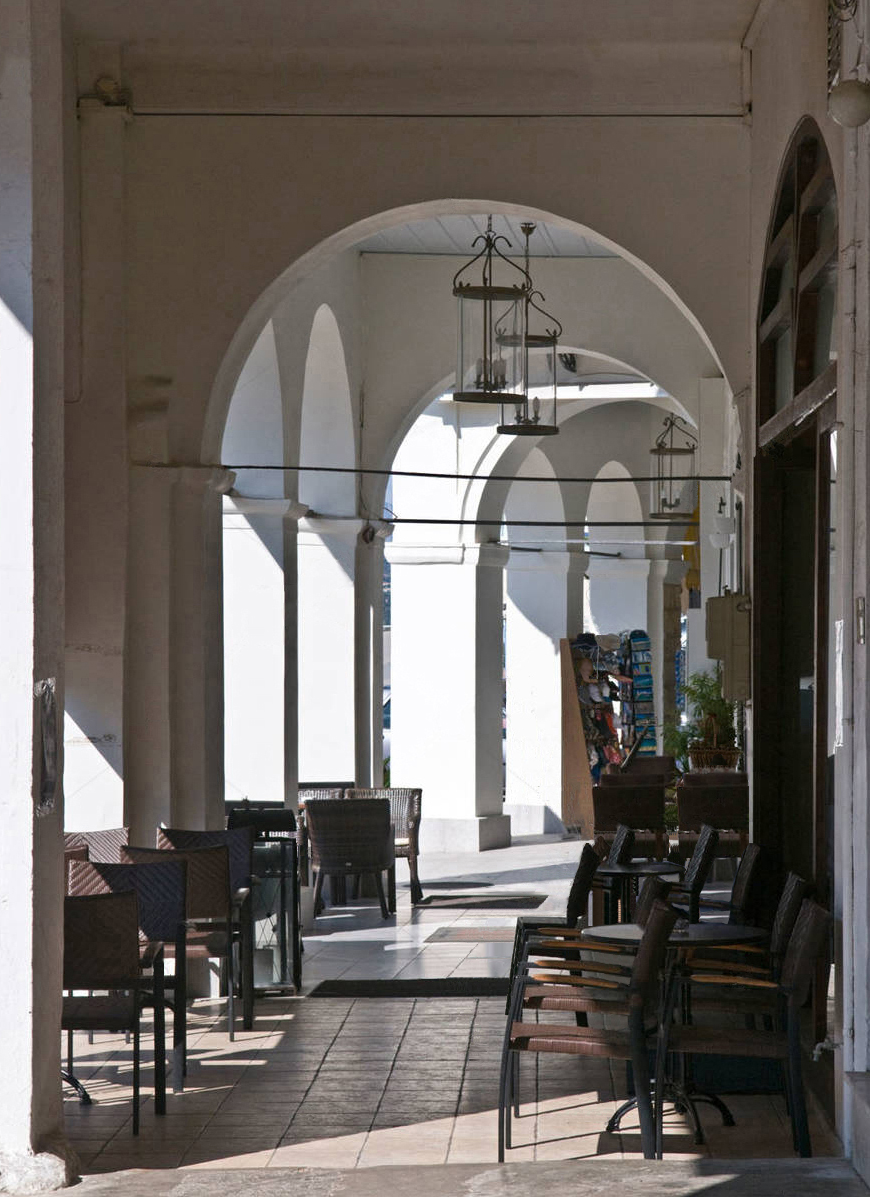 Arcade with shops behind, around the central square (of the Three Admirals) in Pylos, Messinia, Greece